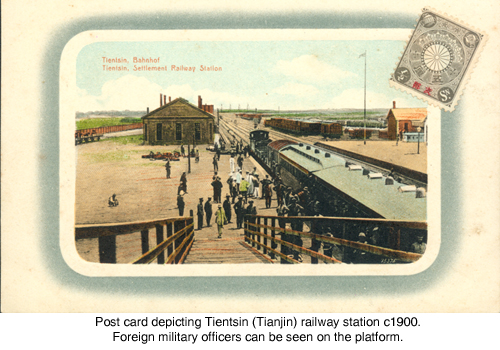 Post Card of Tientsin ( Tianjin) railway station C. 1900